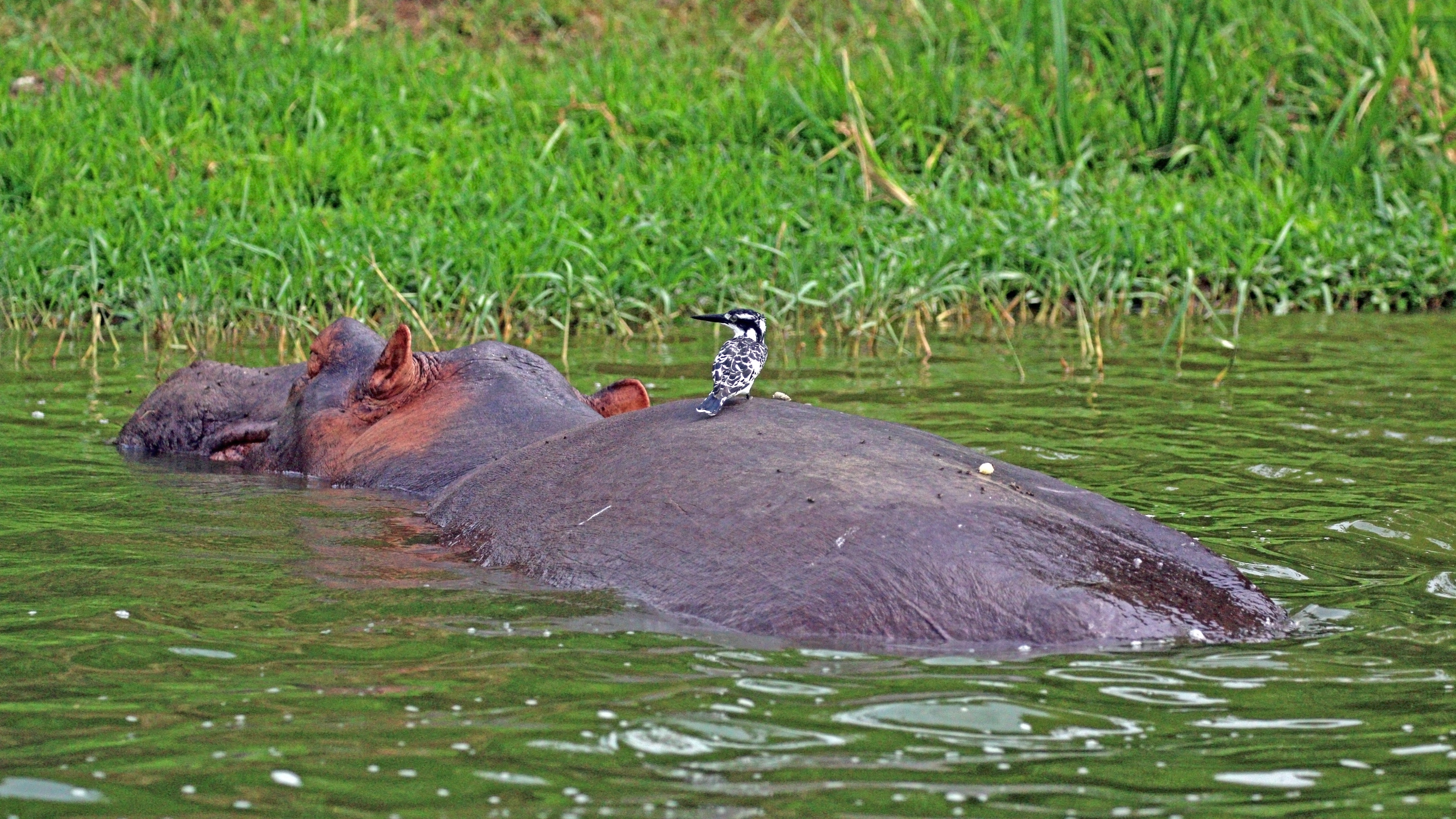 Pied kingfisher (Ceryle rudis rudis) on hippo, Kazinga channel, Uganda